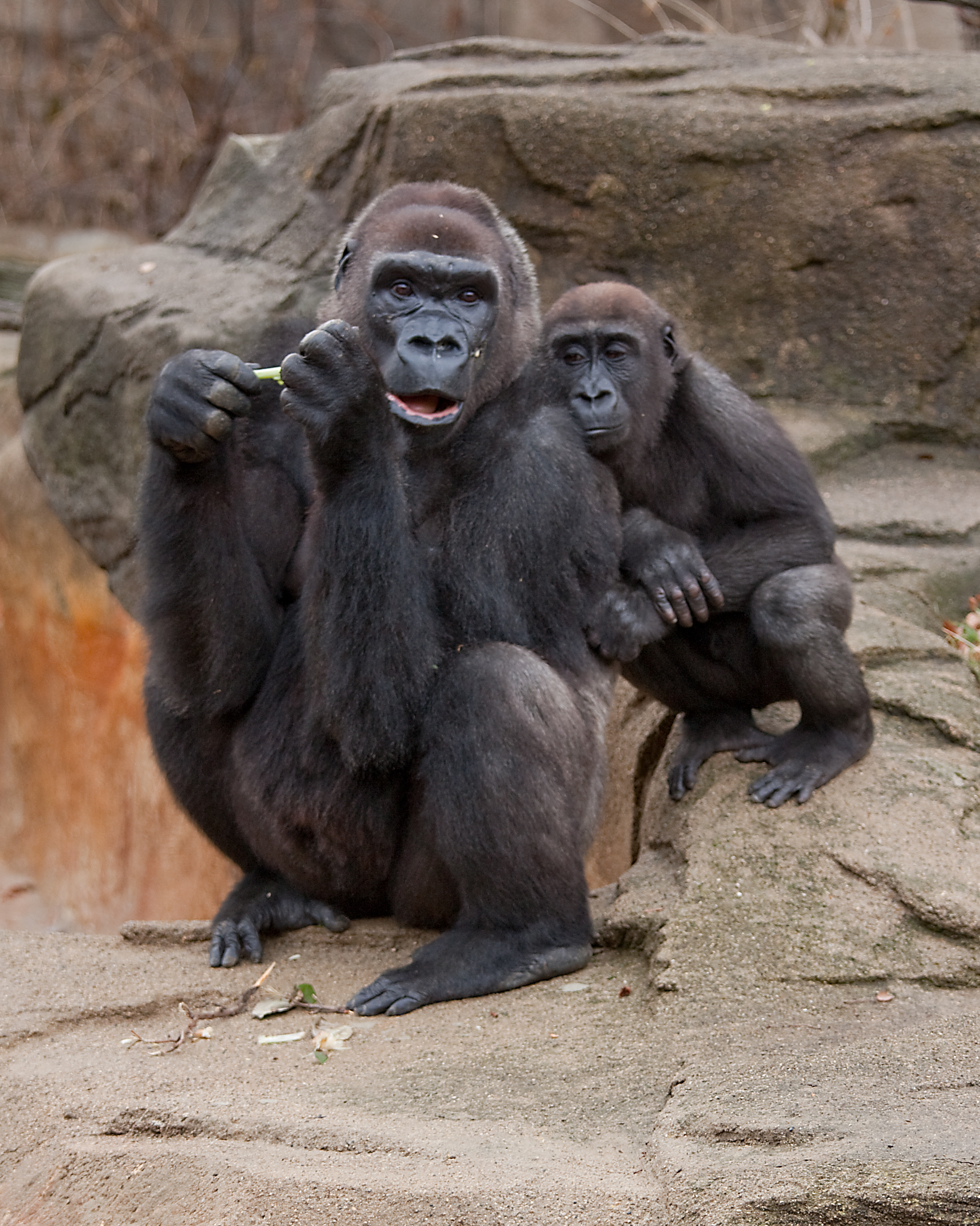 Western lowland gorilla female and juvenile. Taken at the Cincinnati Zoo.